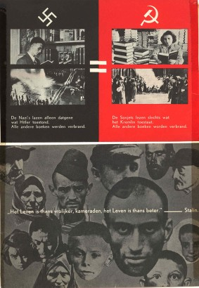 A document from the collection of Henri Max Corwin, depicting the Propaganda methods in the communist Russia and in the national-socialist Germany.